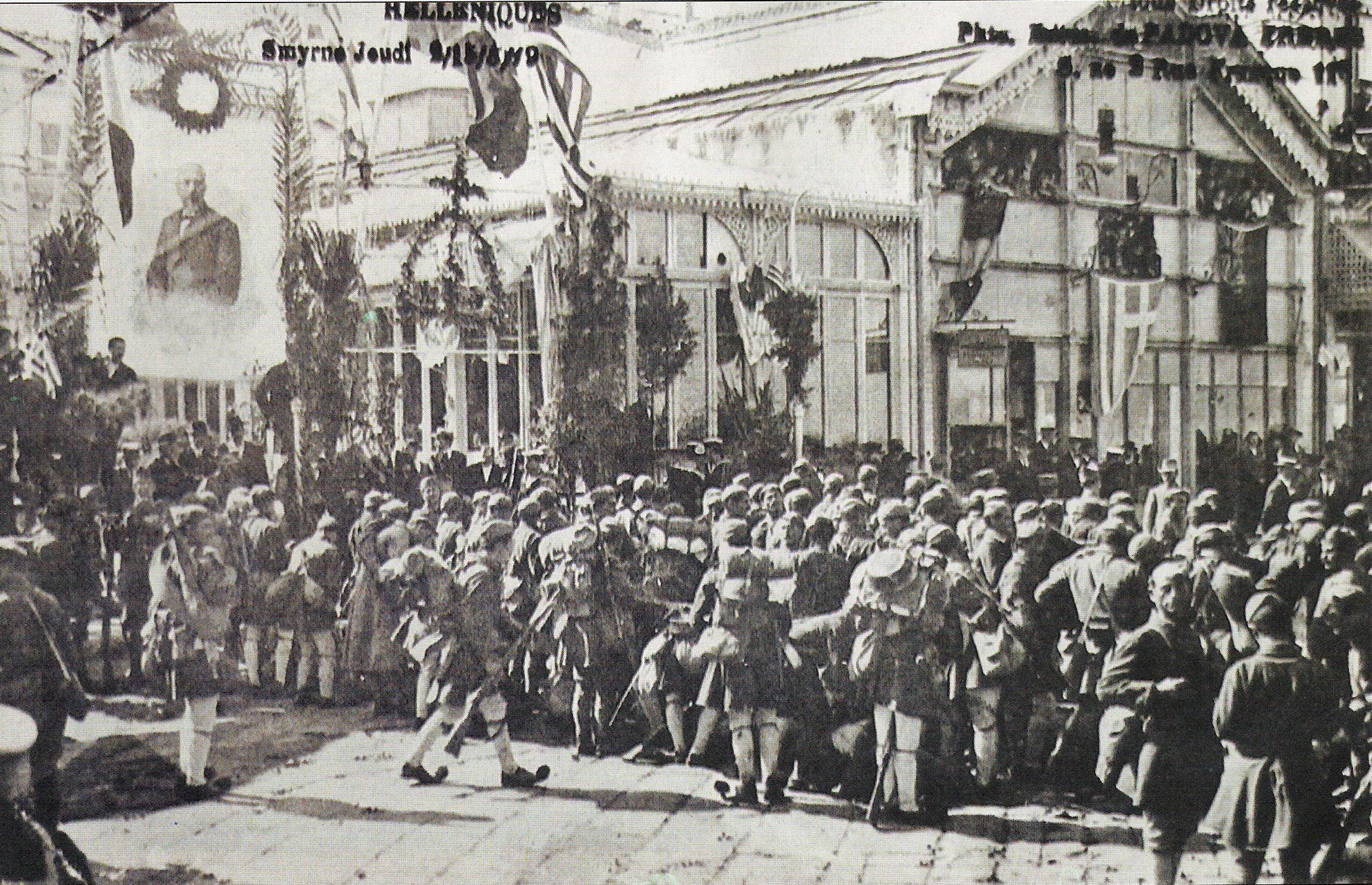 Greek 'evzone' soldiers stationed in Smyrna (Izmir) as the Greek population welcomes them into the city on 15 May 1919